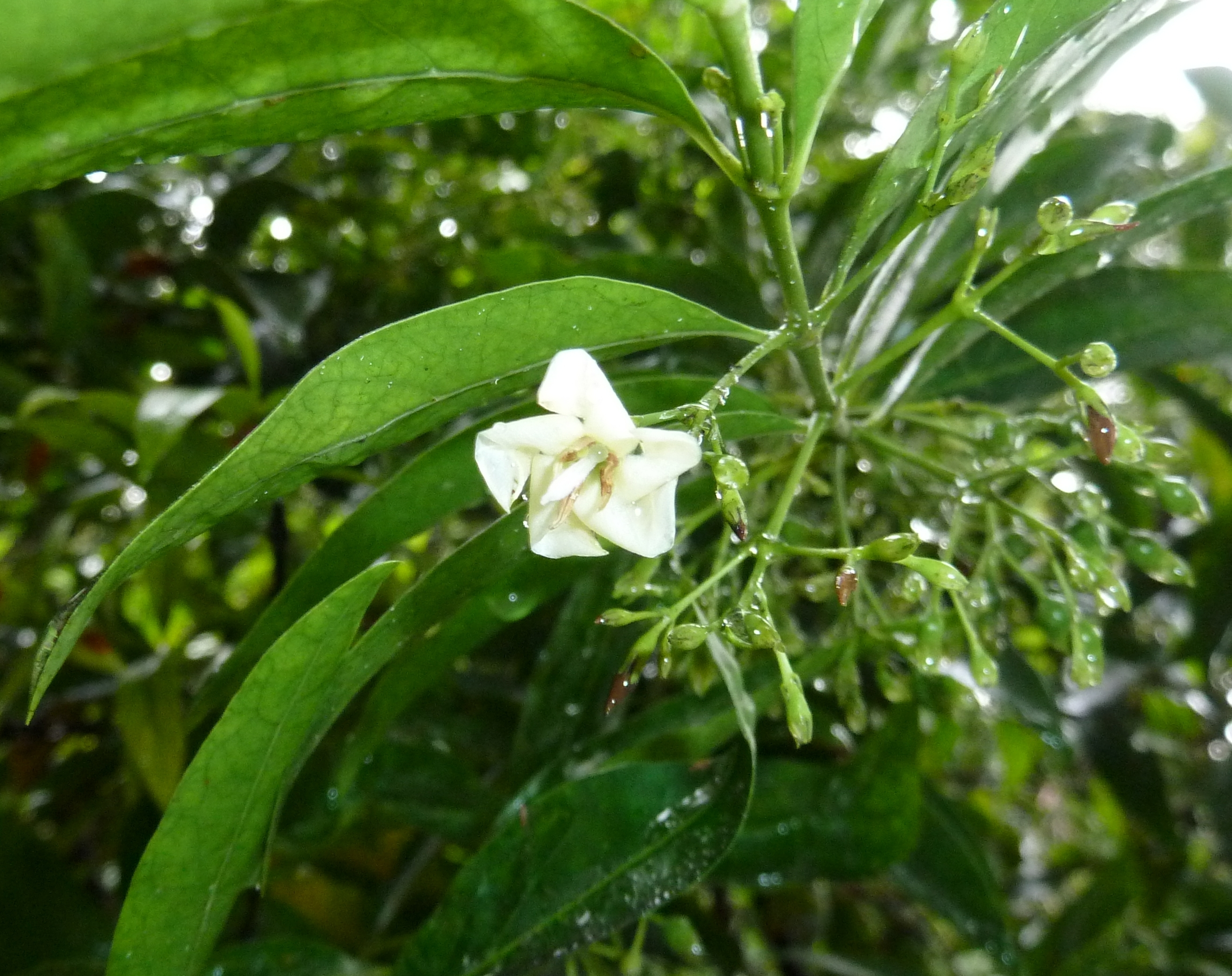 Flowering Rhino-coffee in the Manie van der Schijff Botanical Garden, Pretoria